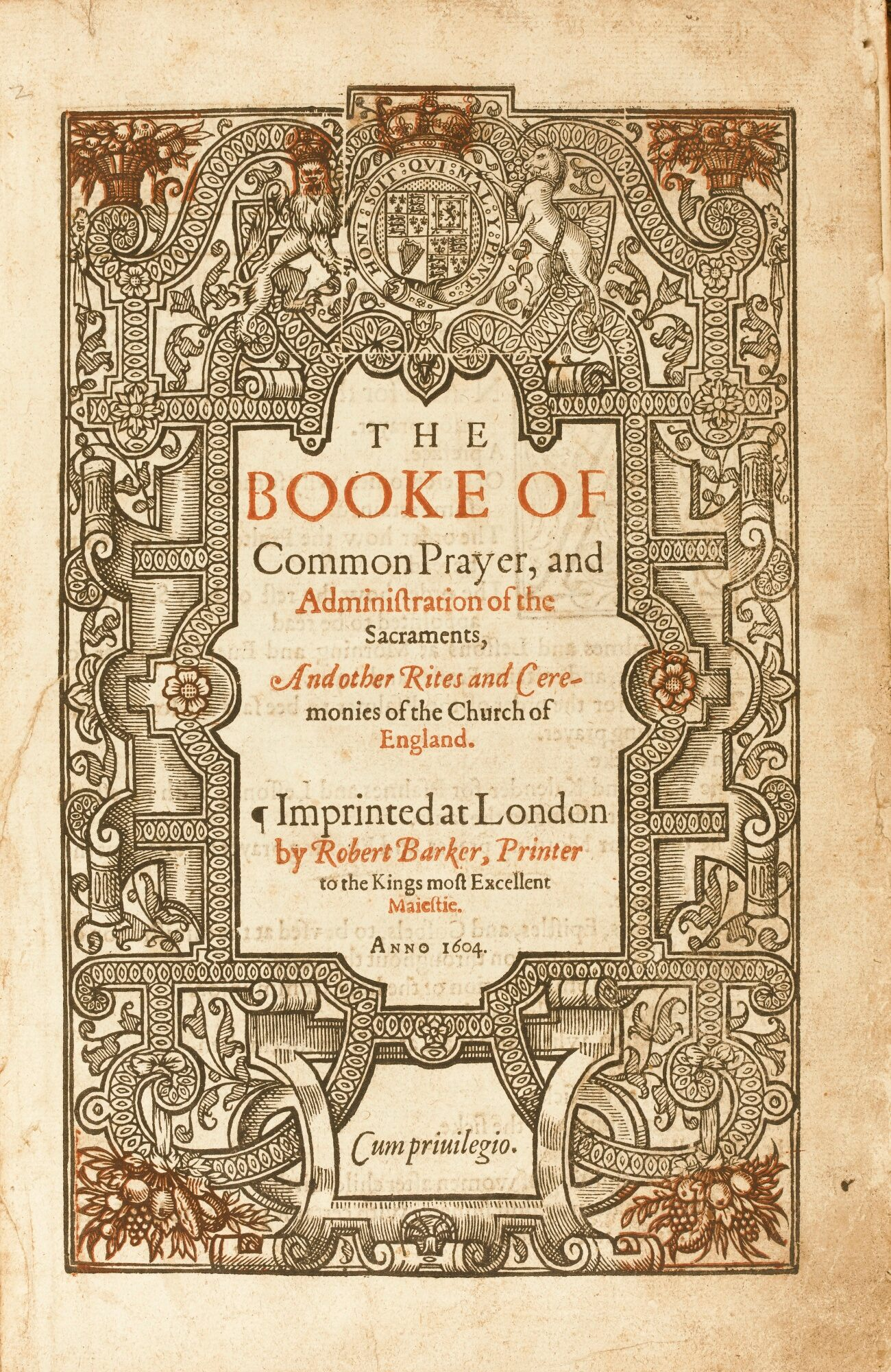 Book of Common Prayer 1604, Title page